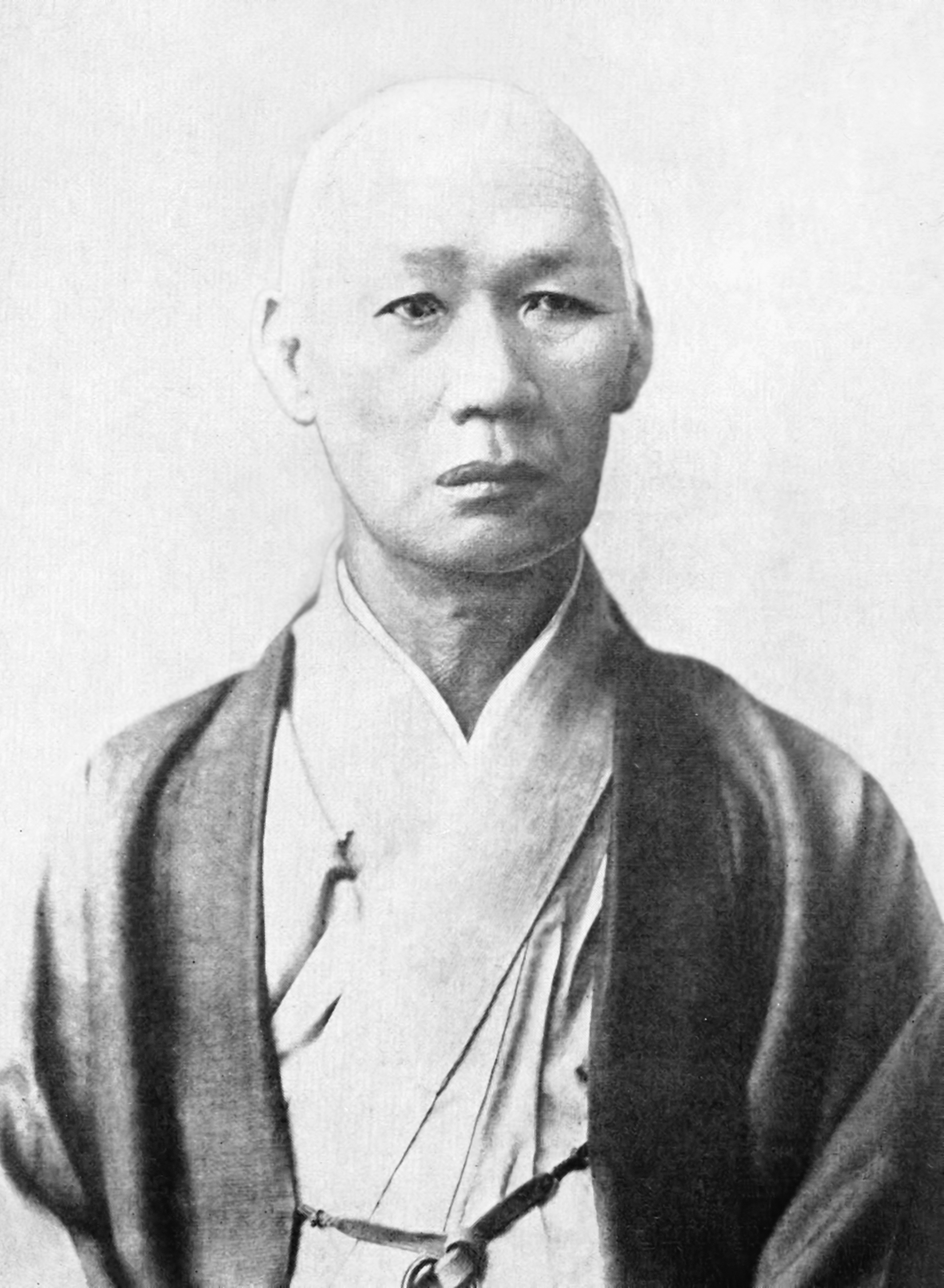 Photograph of Nakahama Manjirō (1827– 1898)